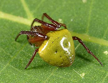 female Araneus viridiventris from Okinawa.